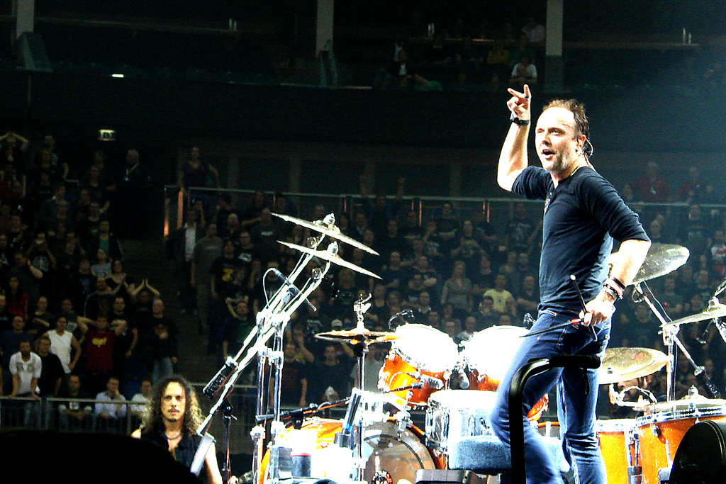 Lars Ulrich playing live with Metallica at London in 2008